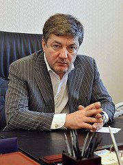 piture